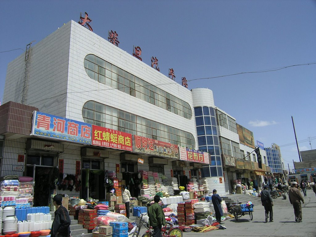 Da Qaidam Bus station — in Qinghai.